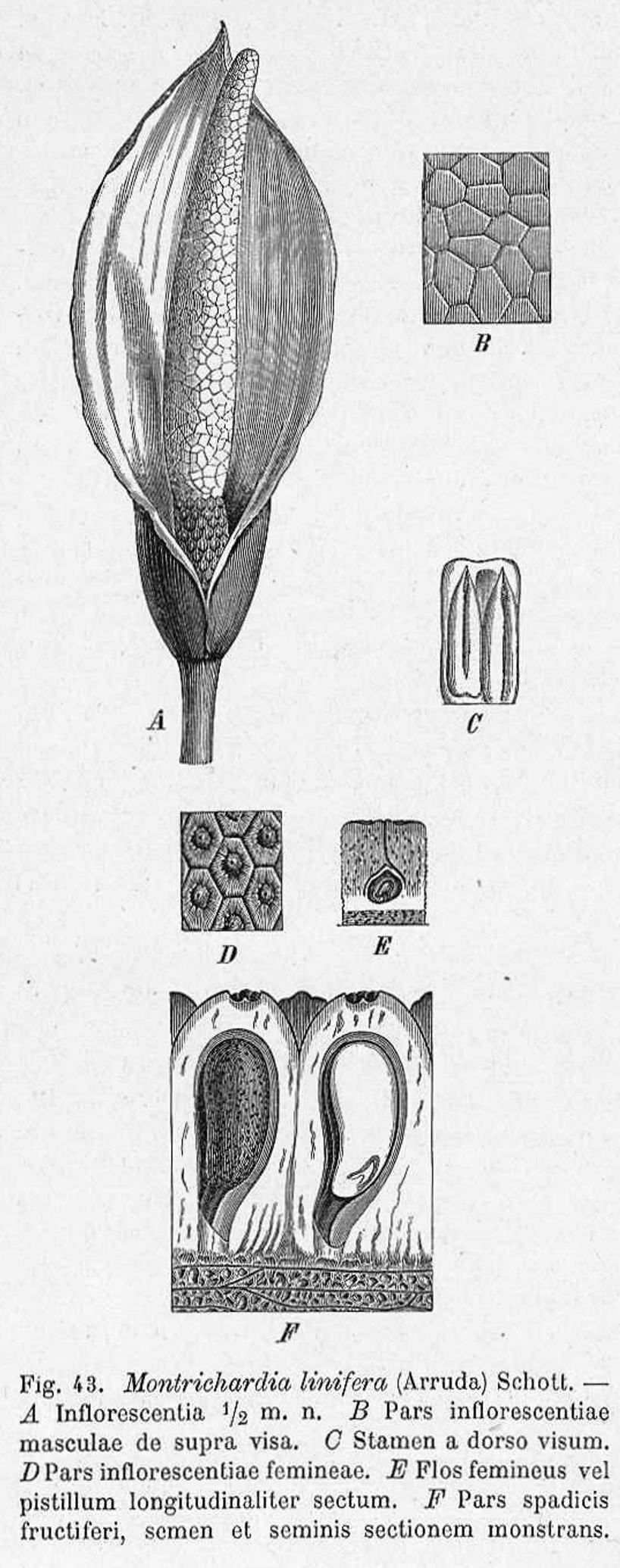 Botanical drawing of Montrichardia linifera inflorescence